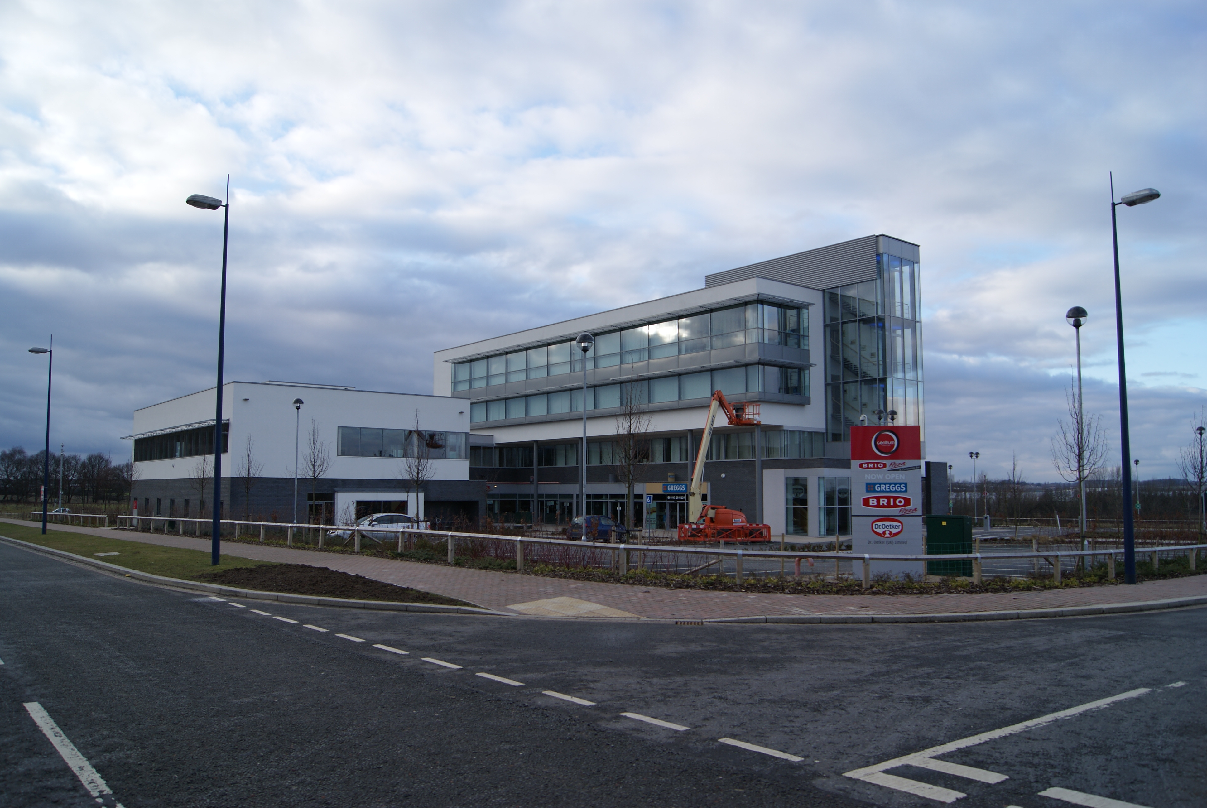 4600 Park Approach, Thorpe Park, Leeds, LS15 8GB. This office block is the UK headquarters for Dr Oetker (a German Food conglomerate), the ground floor are used by Greggs (a UK bakery chain) and Brio (a chain of Italian ristorantes and pizzarias. Thorpe Park is a business park in Colton, Leeds, West Yorkshire. Being a Sunday the business park is particularly quiet. Taken on the afternoon of Sunday the 14th of February 2010.